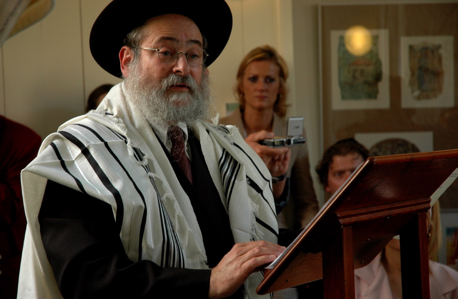 Rabbi Binyomin Jacobs is the Chiefrabbi of the Inter Provencial Chief Rabbinate of the Netherlands (IPOR).